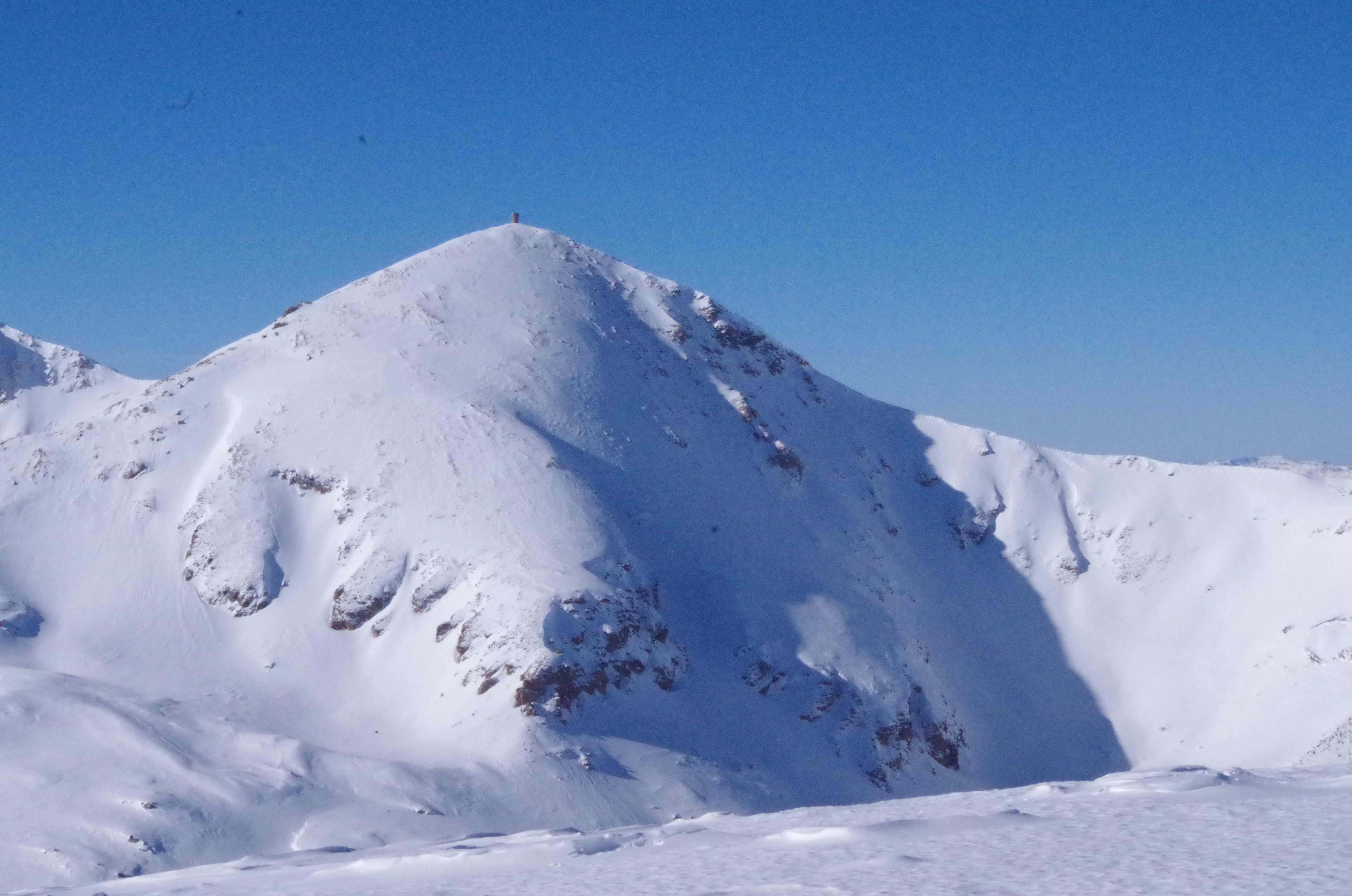 Titov Vrv peak on Shar Mountain, Macedonia (In loving memory of Pero Atanasov - Crna Strela)